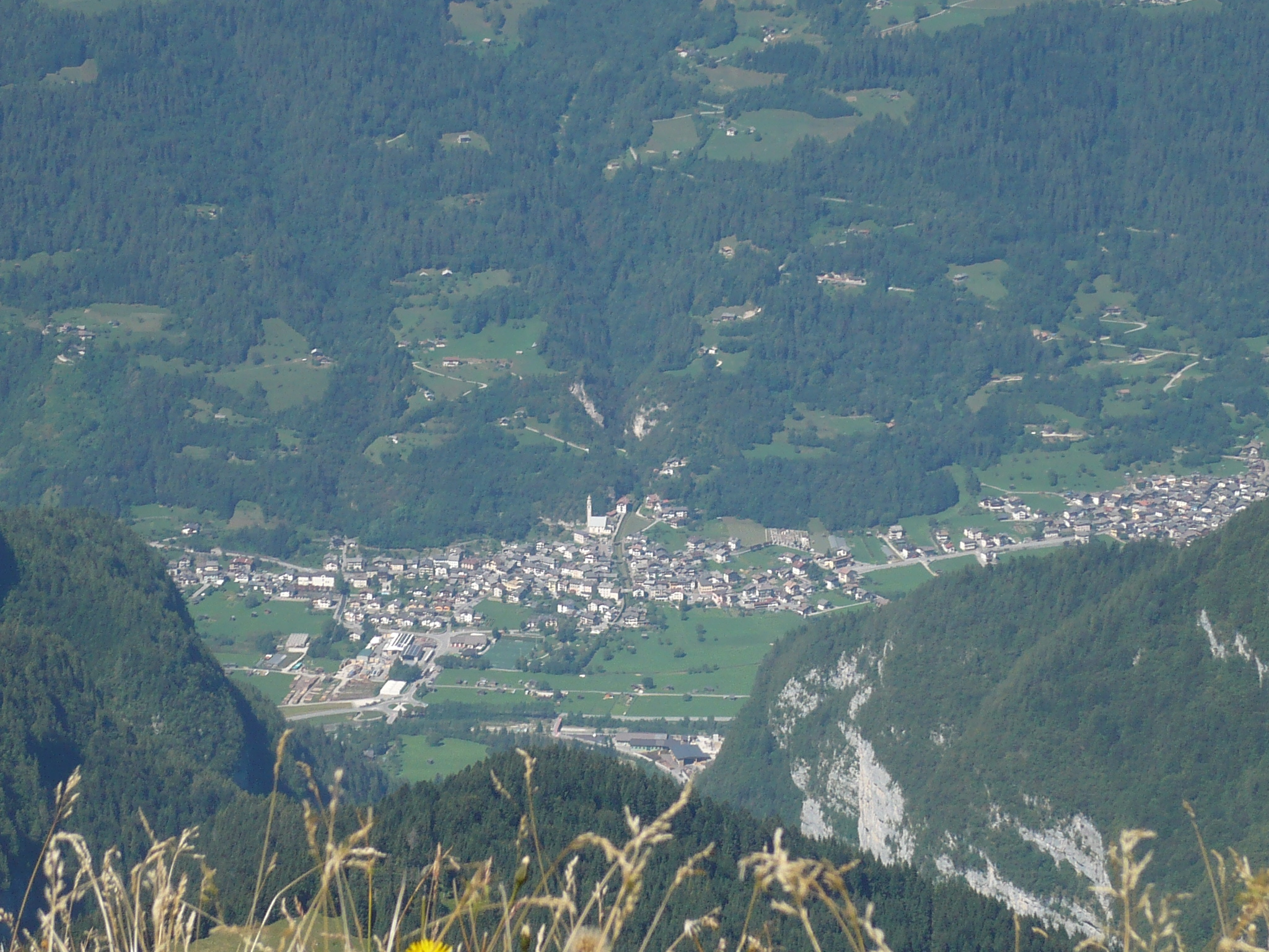 Imèr seen from Pavione